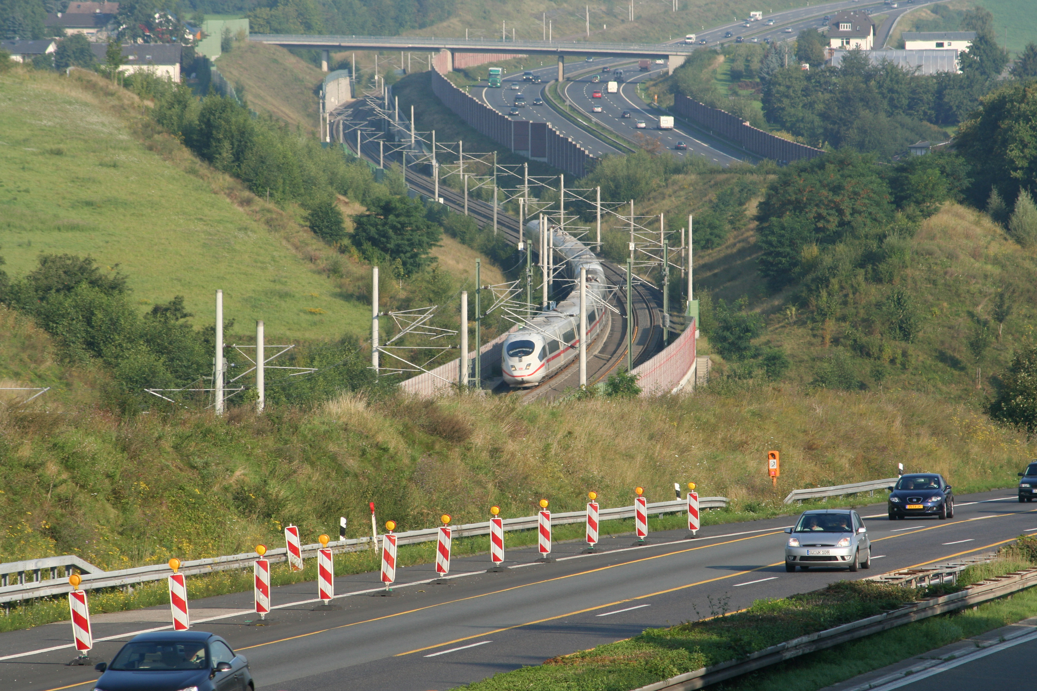 The Cologne-Frankfurt high-speed line and the Autobahn 3 highway run in parallel, near Hasenboseroth